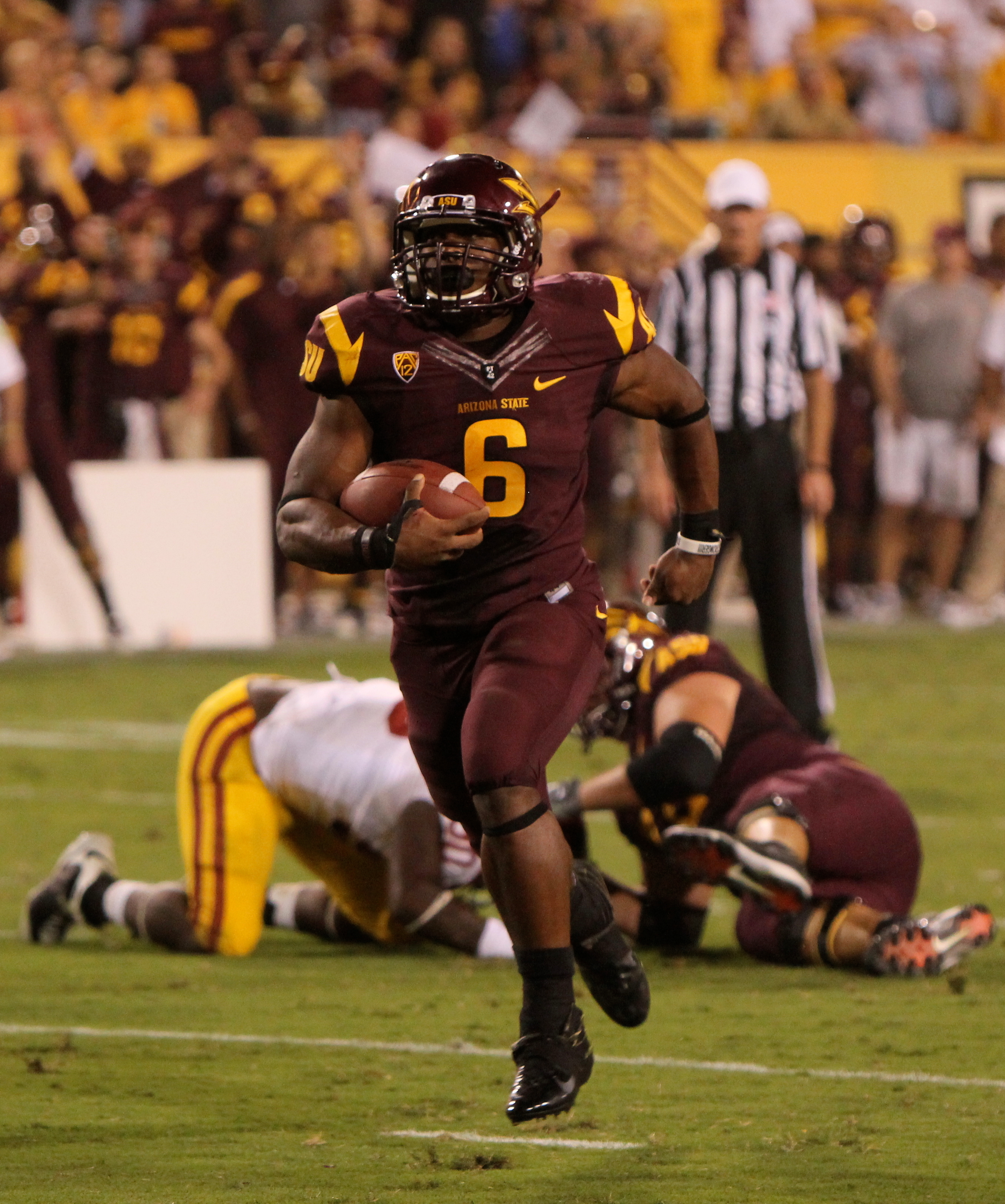 Cameron Marshall, running back for Arizona State Sun Devils, playing against Southern California. Taken by James Santelli, Neon Tommy. September 24, 2011.